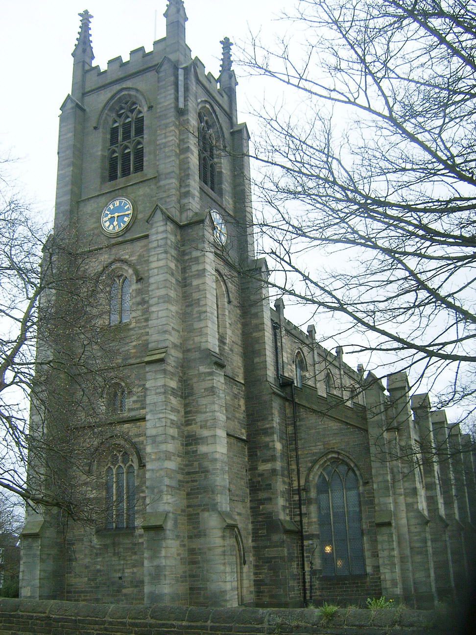 Pudsey parish church